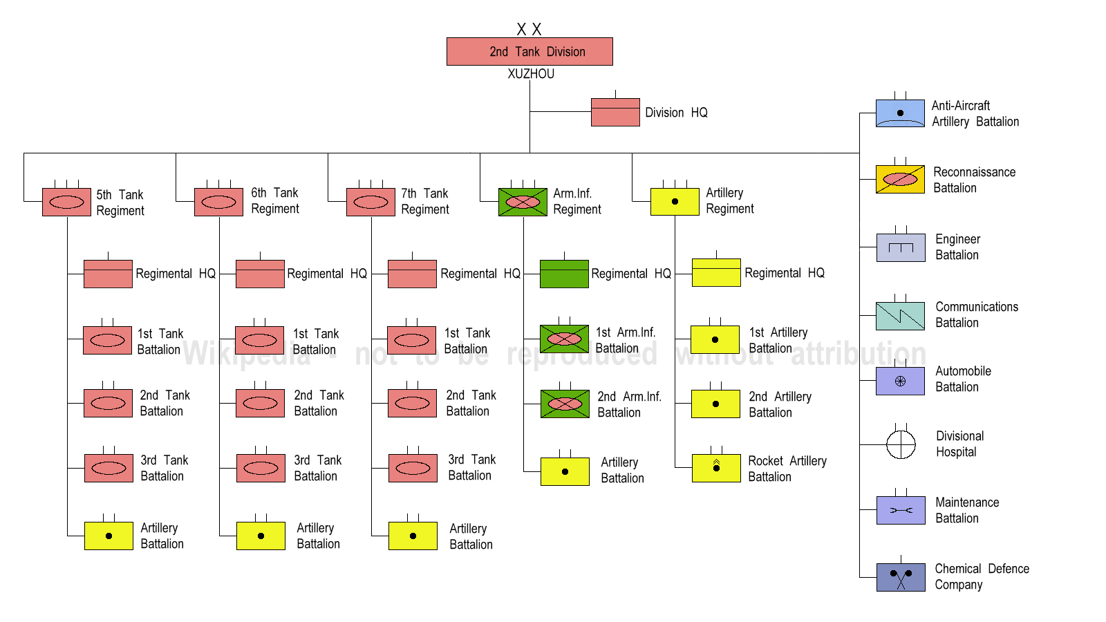 2nd Tank Division of 12th Army, People's Liberation Army, Order of Battle from 1983 to 1998.